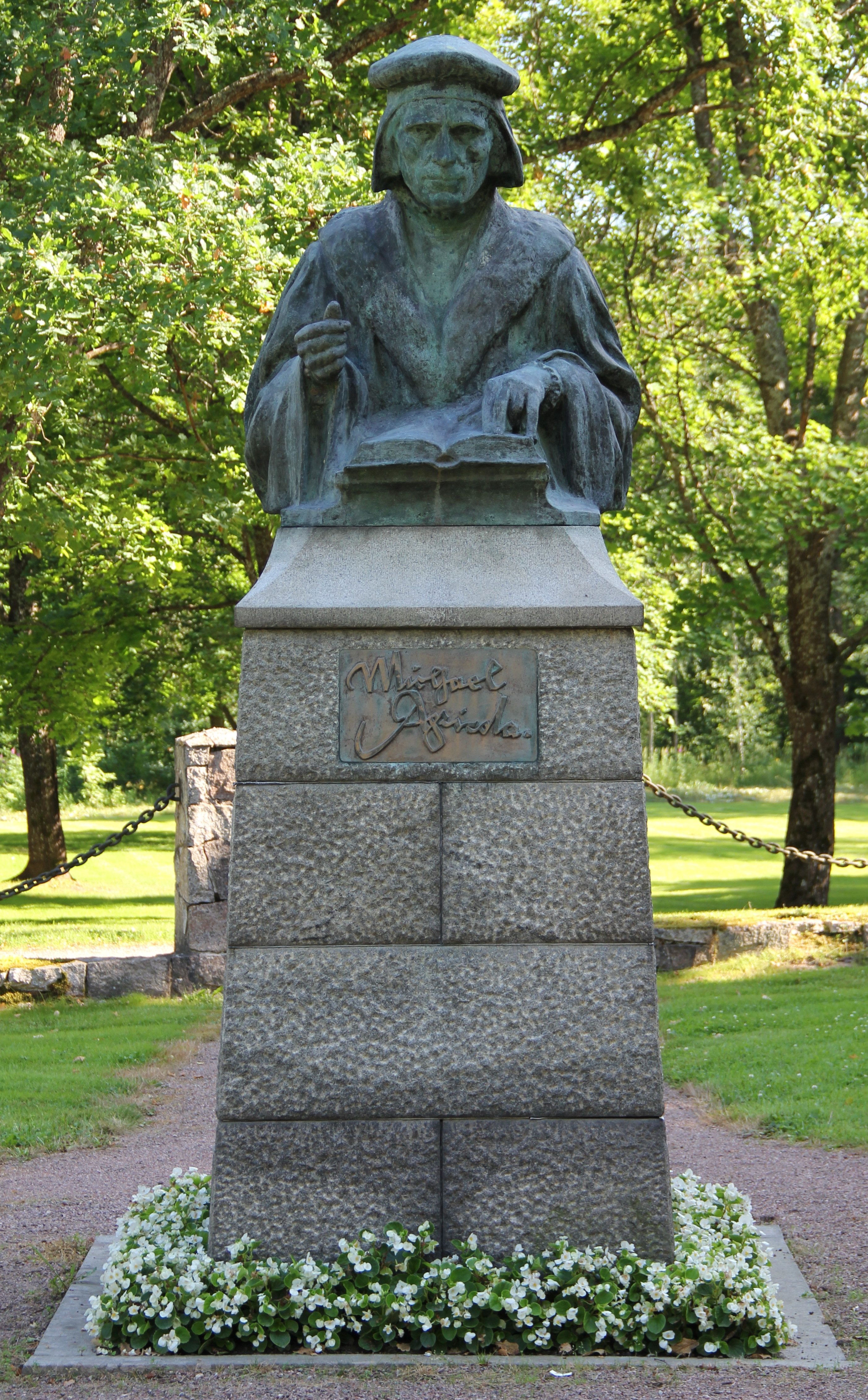 Bust of Mikael Agricola in Pernå, Loviisa, Finland. Bust is a copy of Emil Wikströms original statue, unveiled in Vyborg in 1908. This one was unveiled in 1959.